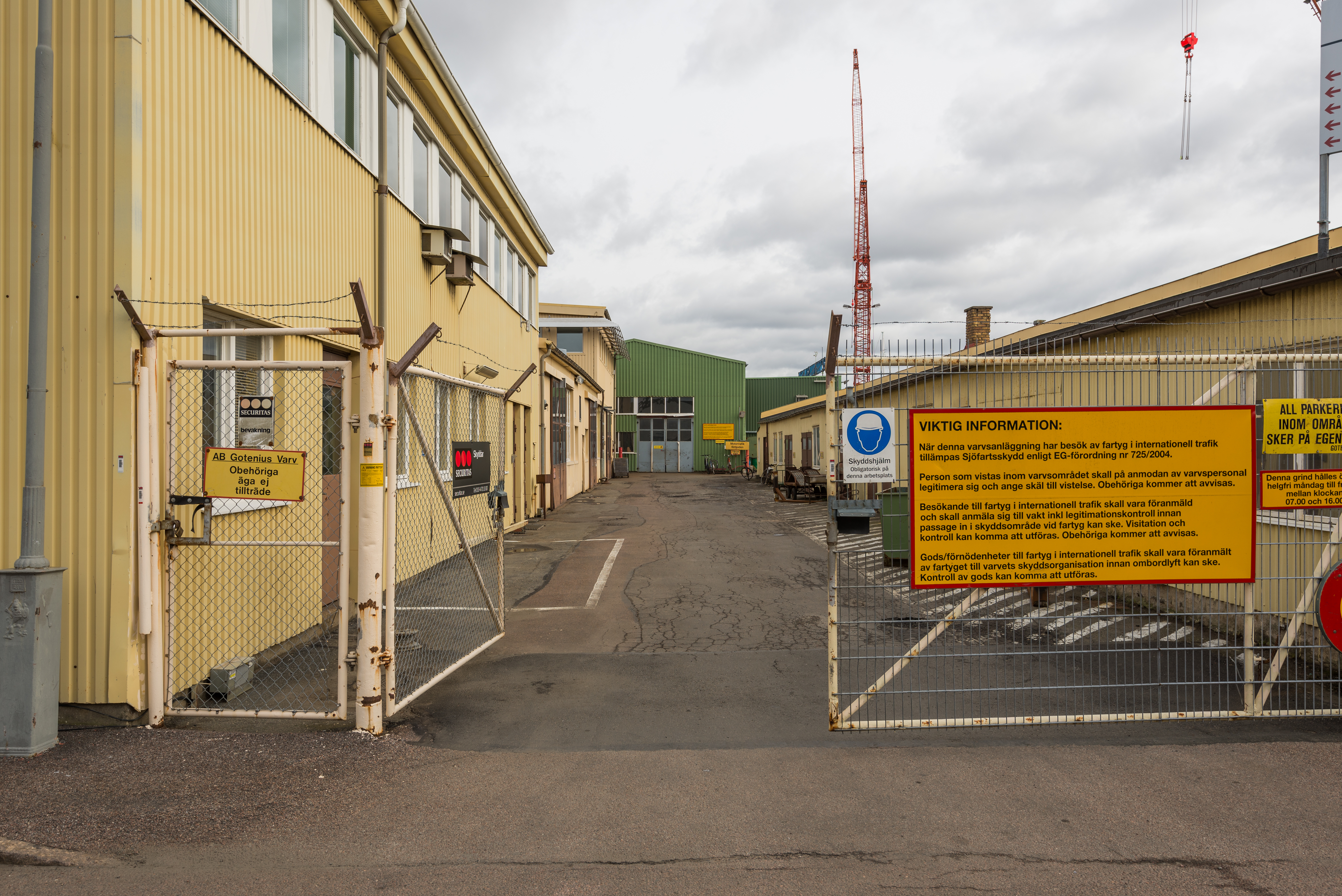 Gotenius shipyard at Ringö, Hisingen (Gothenburg).